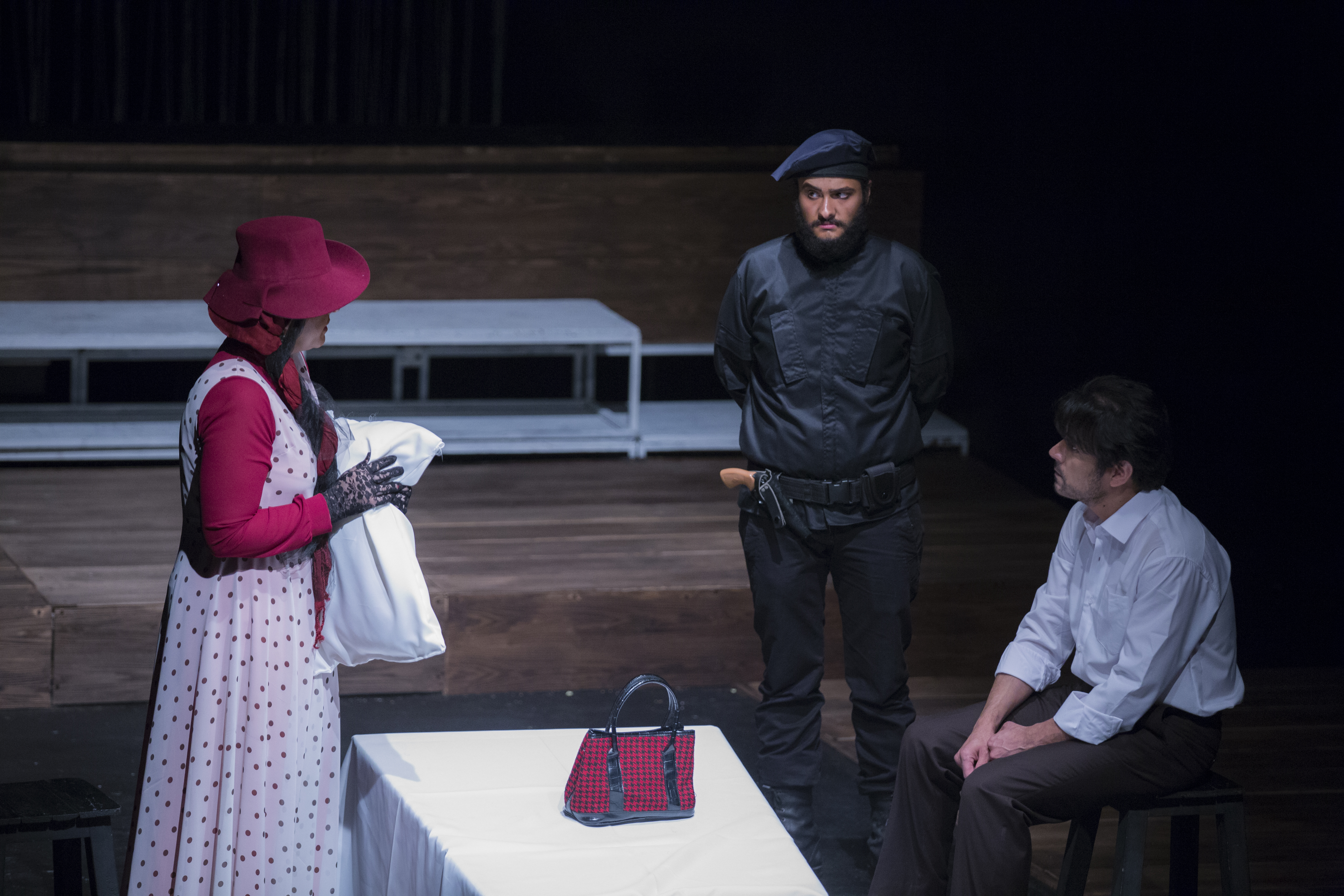 L’Étranger is a 1942 novel by French author Albert Camus. Its theme and outlook are often cited as examples of Camus' philosophy of the absurd and existentialism, though Camus personally rejected the latter label.